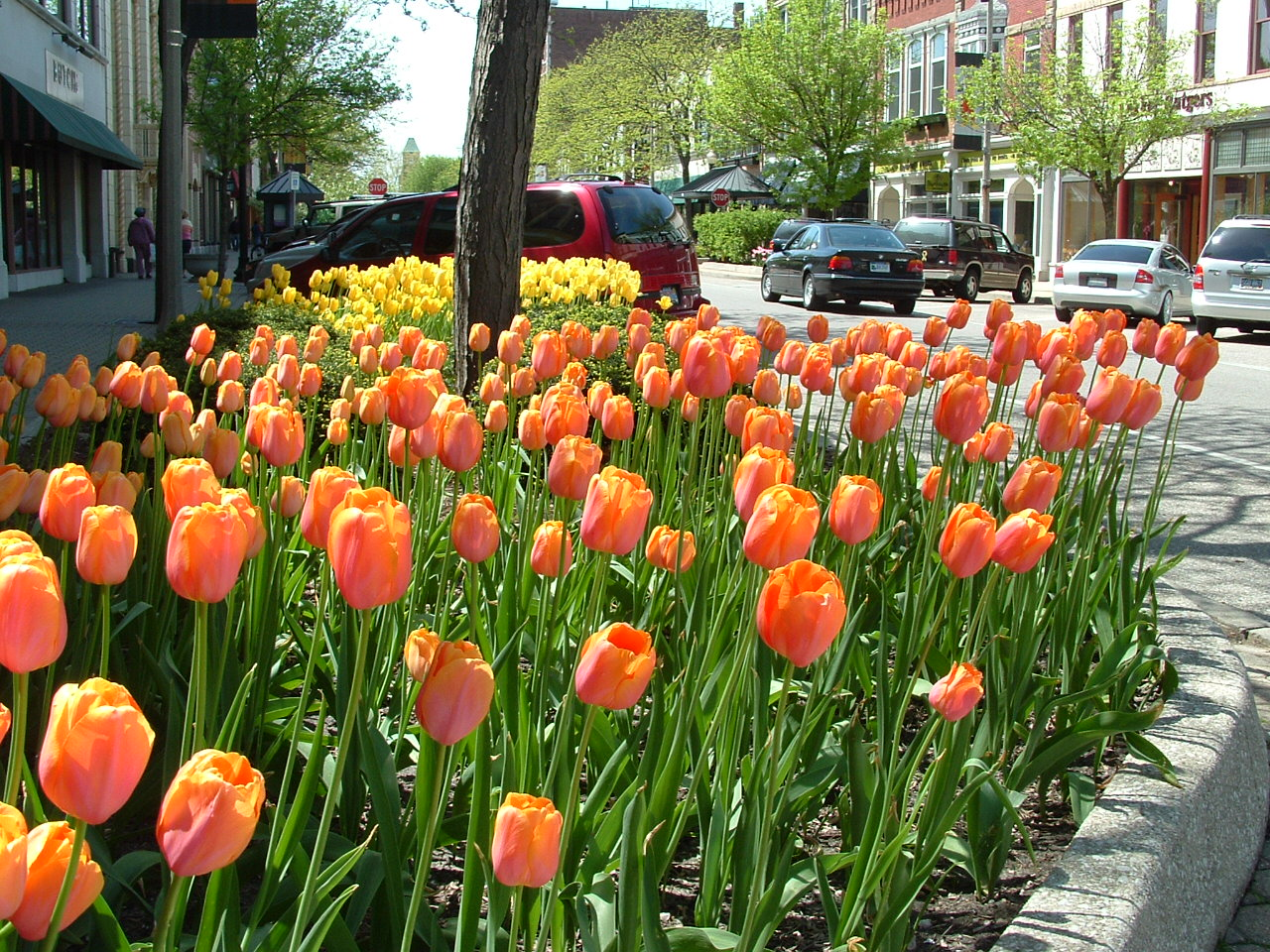 Tulip beds decorate downtown Holland during Tulip Time.